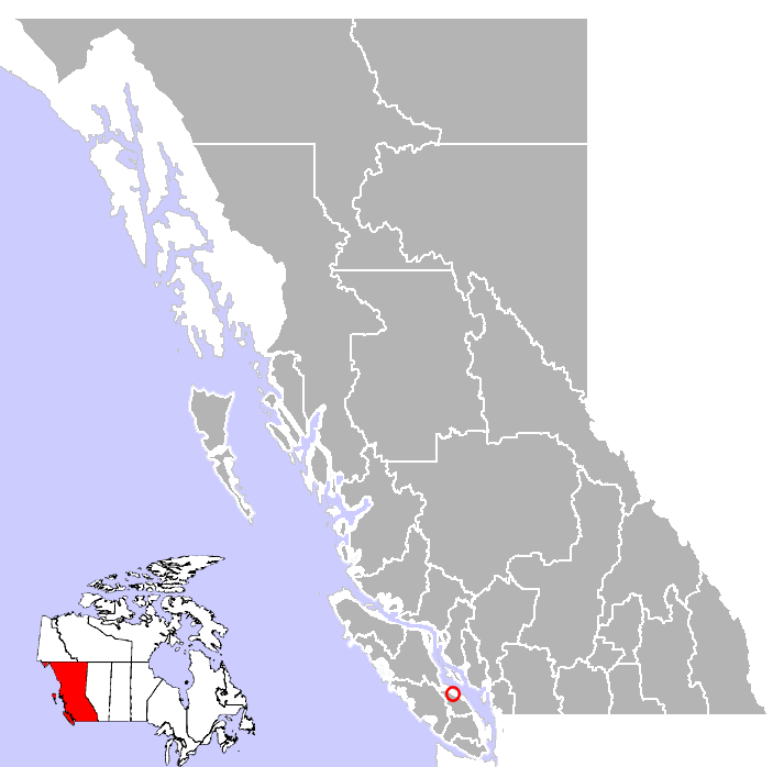 Qualicum Beach, British Columbia location.